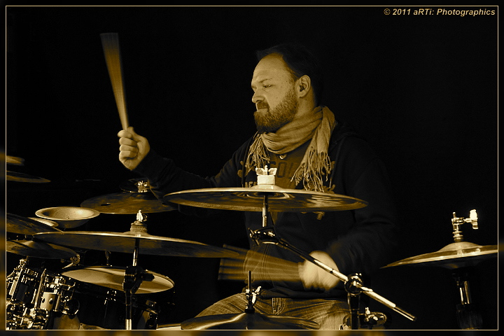 Claus Hessler performing at a clinic in Germany, February 2011